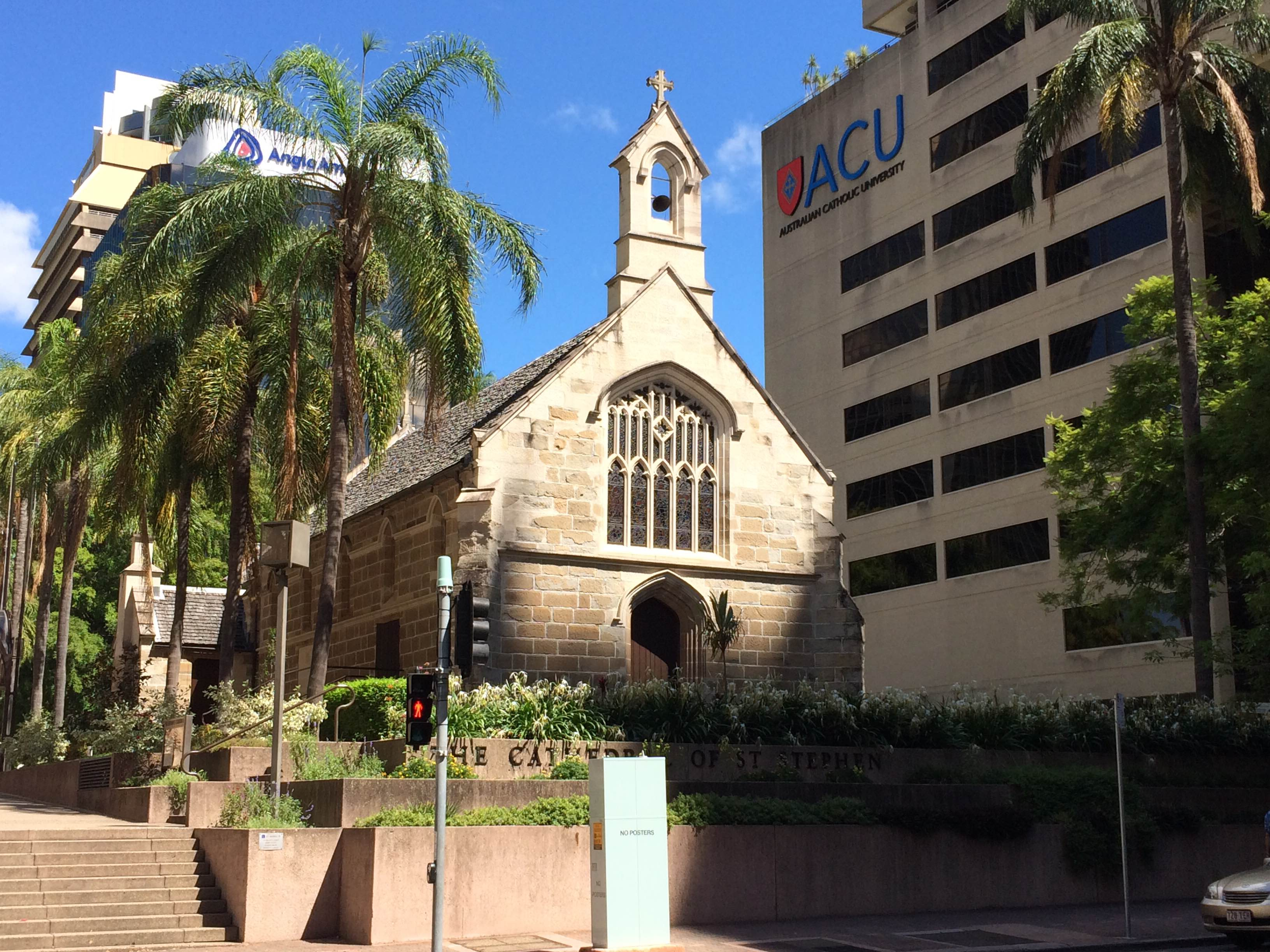 St Stephen's Chapel, Elizabeth Street, Brisbane